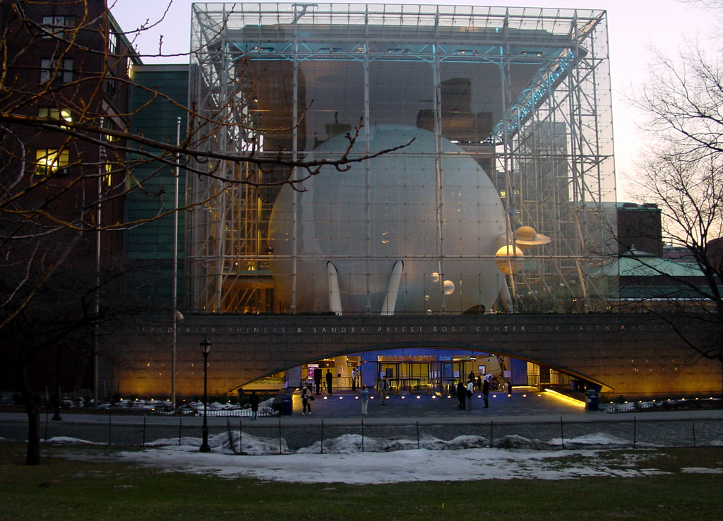 This is a picture I (= Spheroide) took of the Rose Center for Earth and Space in New York, in February 2004. It is intended to illustrate the wiki article on the Rose Center for Earth and Space